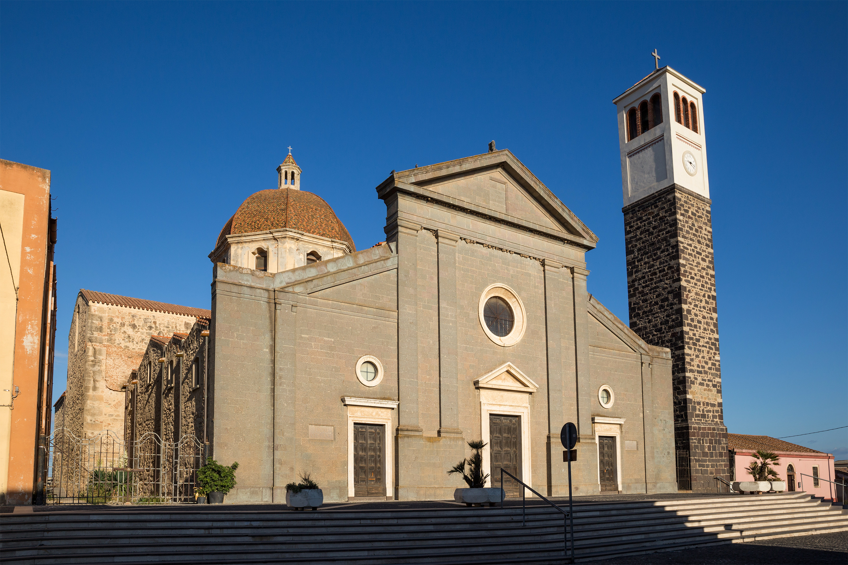 Cabras, Sardinia, church Santa Maria Assunta